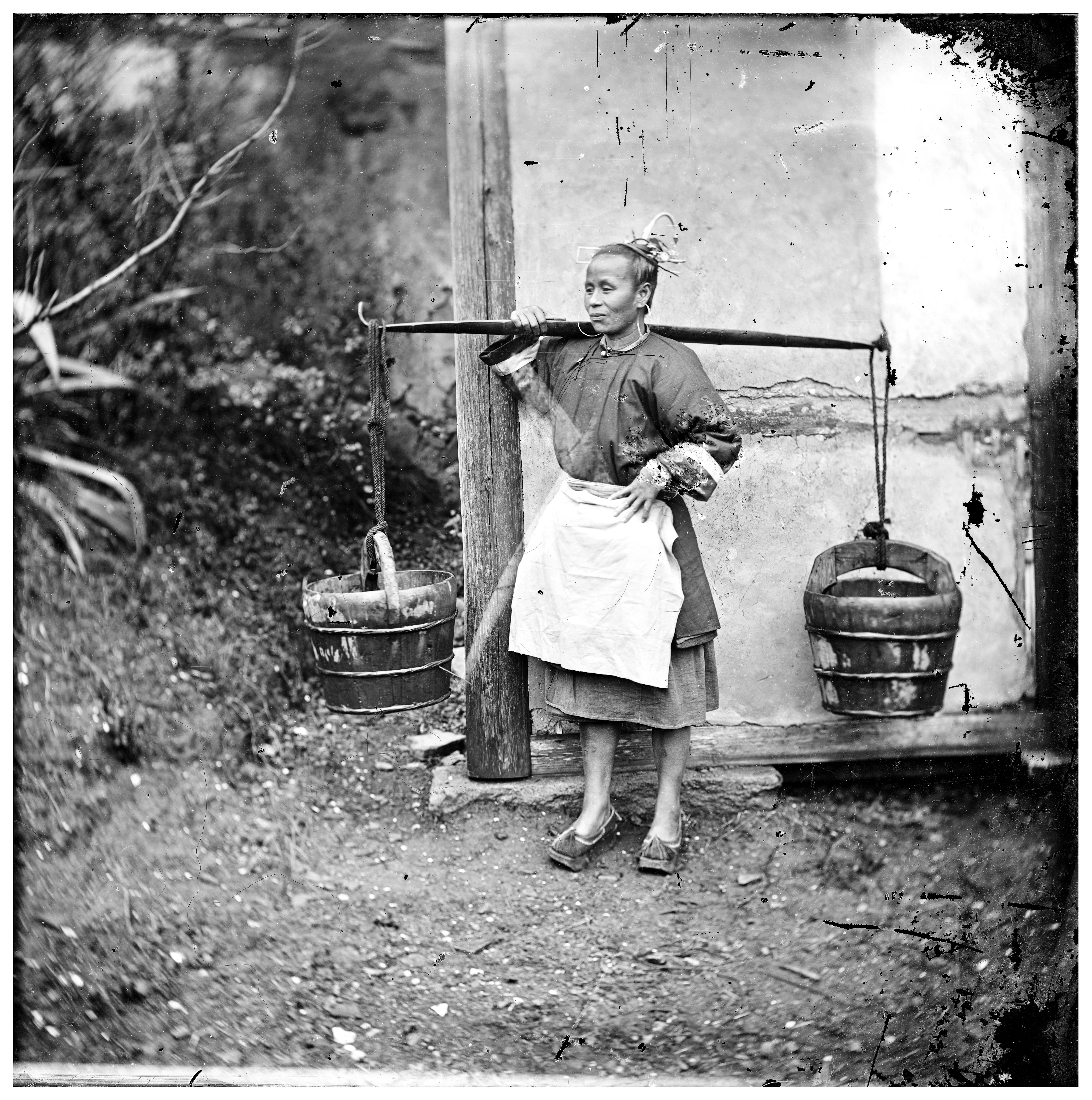 Foochow, Fukien province, China: a woman carrying buckets of night-soil. Photograph by John Thomson, 1871. Iconographic Collections Keywords: J. Thomson